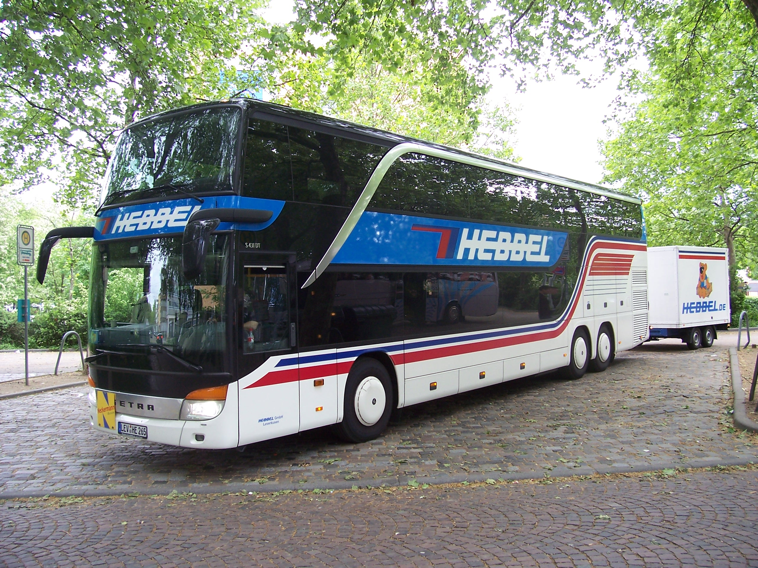 Setra S 431 DT coach (reg. LEV-HE 265) in Mannheim, Germany. Hebbel Busbetrieb GmbH from Leverkusen operator.